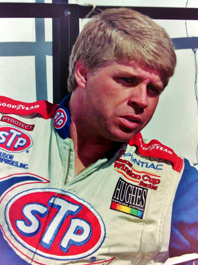 Bobby Hamilton in 1998.